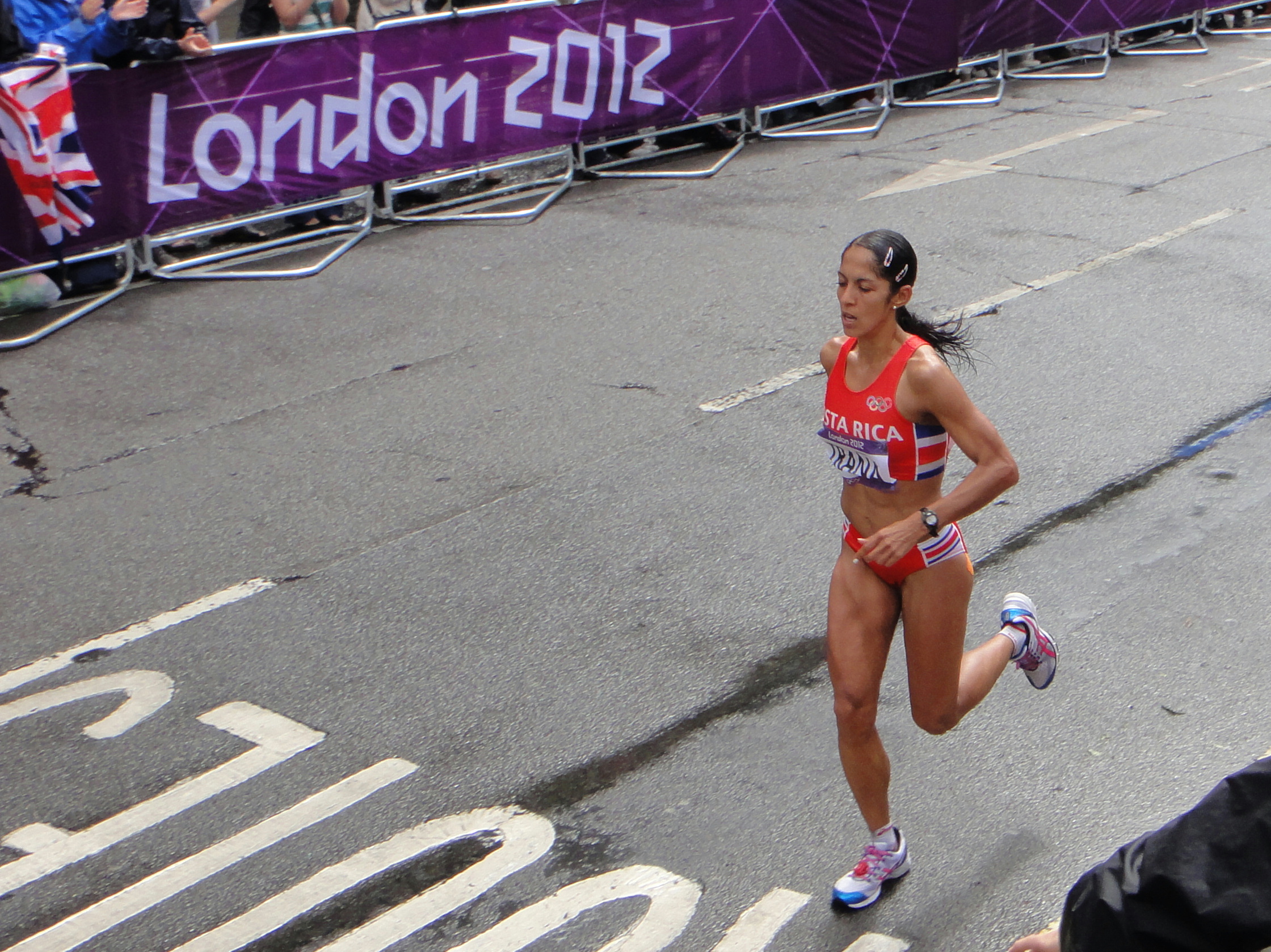 Gabriela Trana (Costa Rica) - London 2012 Women's Marathon